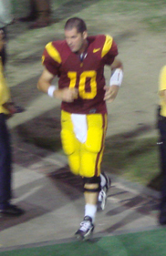 Quarterback John David Booty runs off the field after a USC victory.